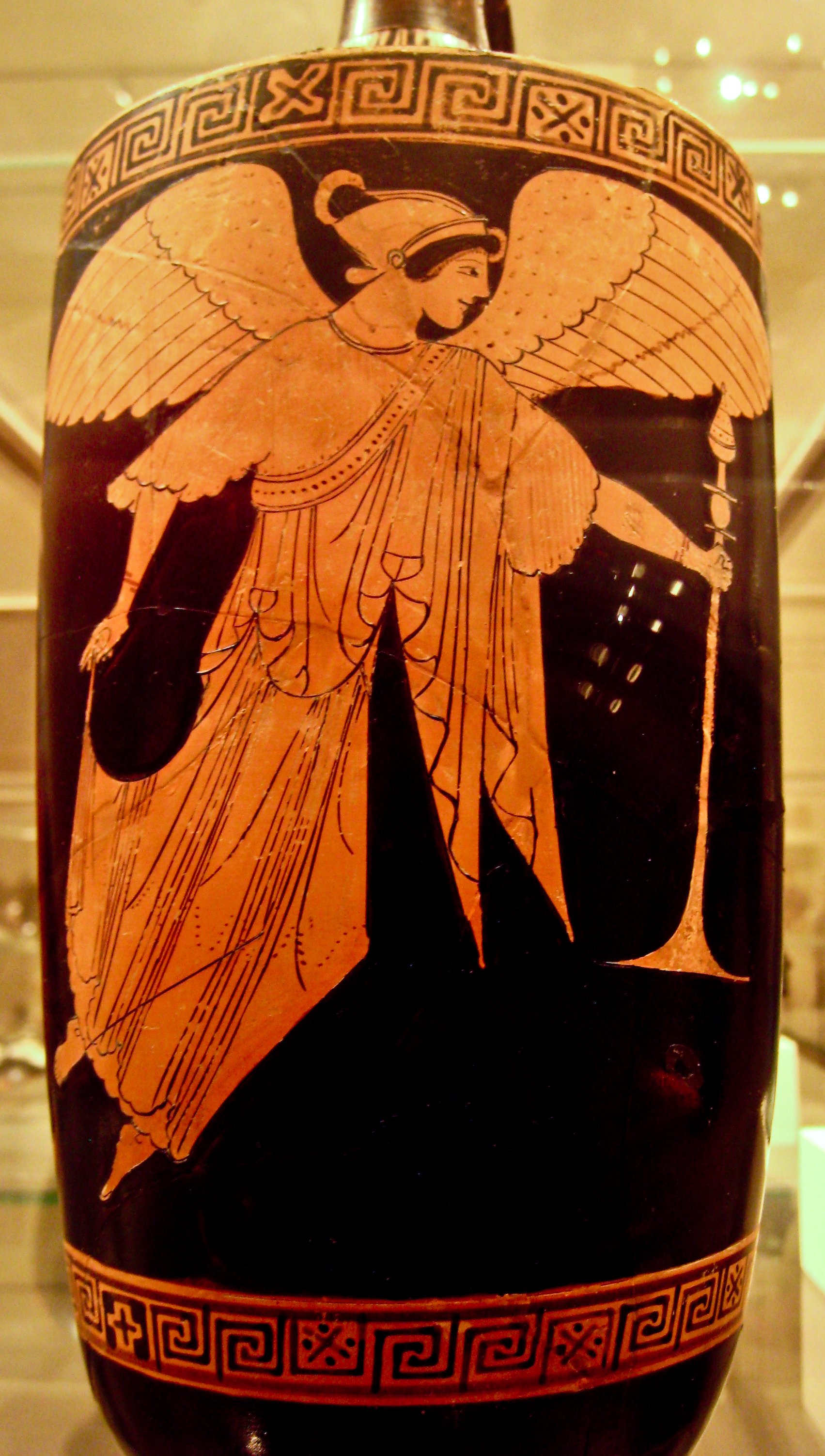 Lekythos with Winged Victory with Incense Holder.